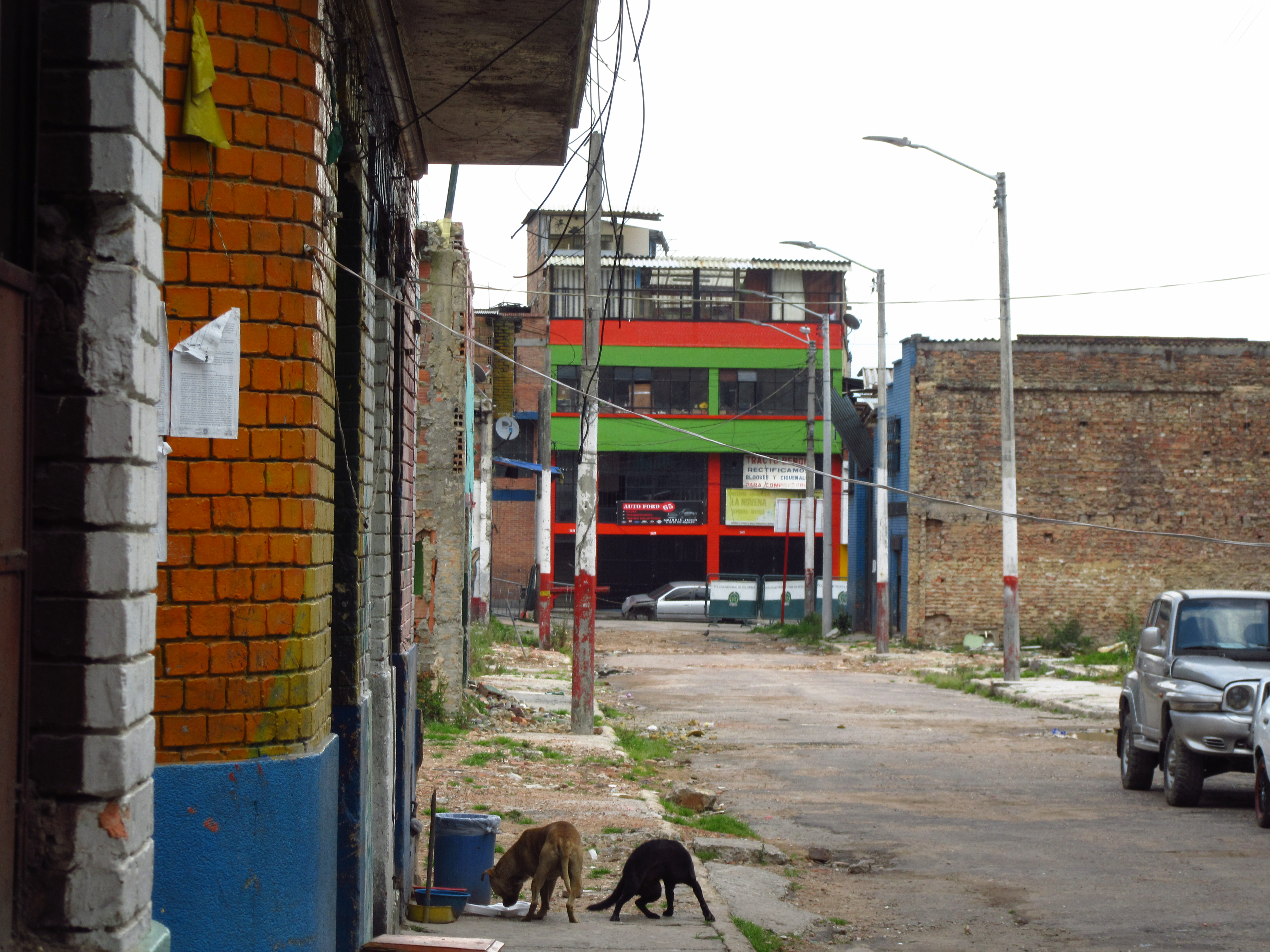 Bogotá